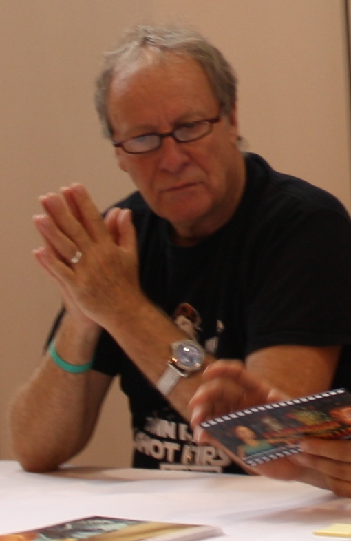 Paul Blake at Star Wars Celebration Europe II in Essen, Germany.